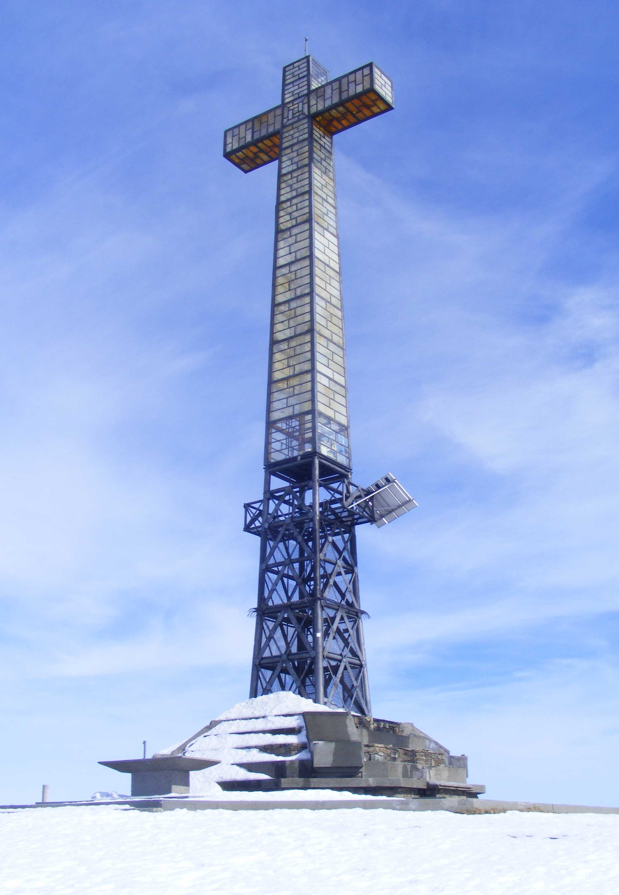 Bric Mindino (CN, Italy): the crosso on the top